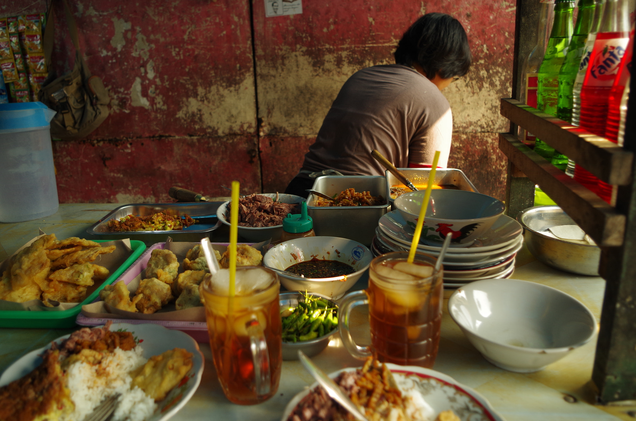 500px provided description: Warung Street Food Is Best Food [#street ,#food ,#delicious ,#drinks ,#cosy ,#warung ,#Indonesia ,#Semarang]